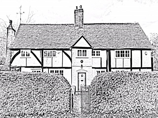 A sketch of The Cottage in Thorpe, Surrey